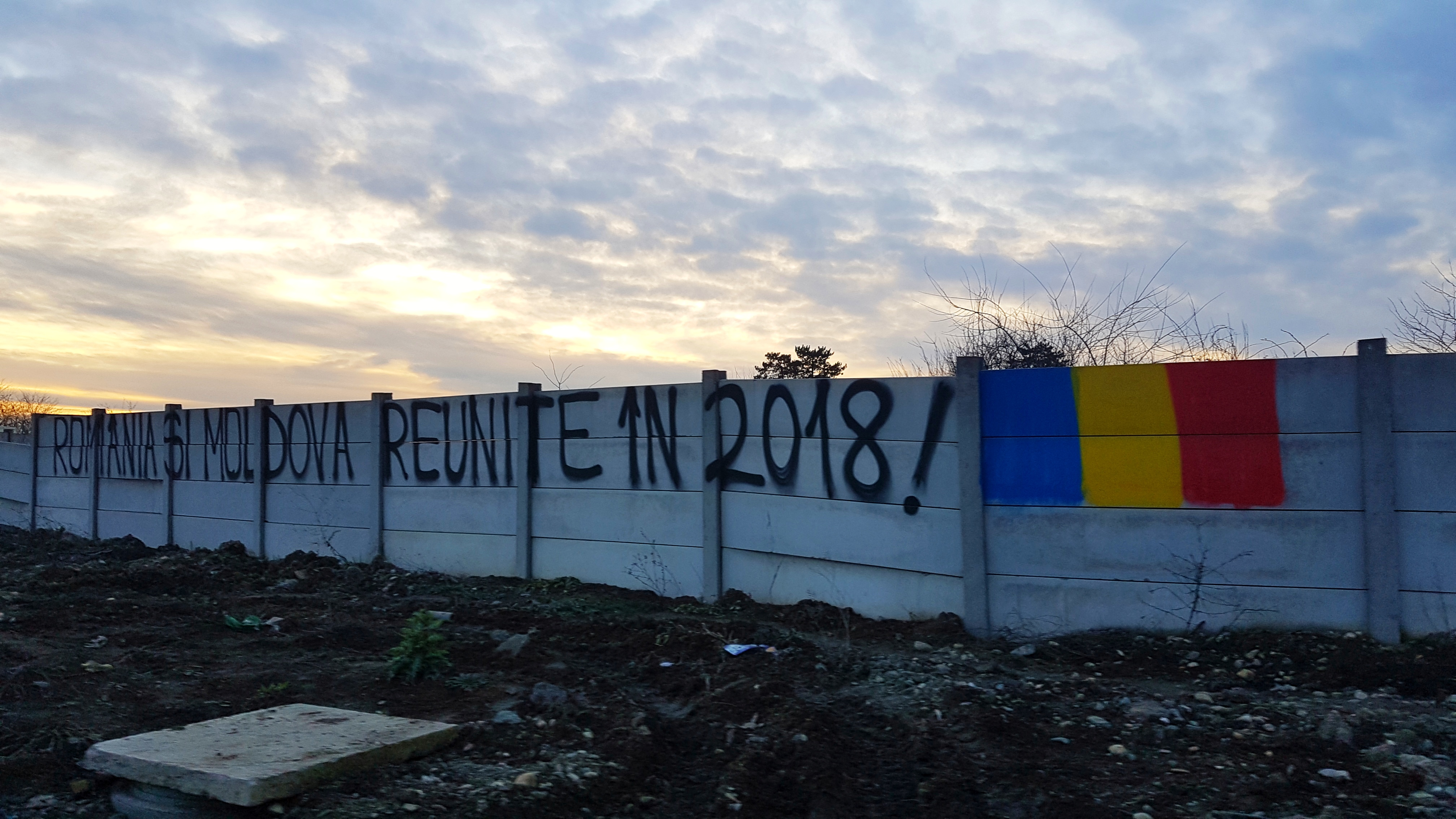 "ROMÂNIA ȘI MOLDOVA REUNITE ÎN 2018" graffiti seen on a wall adiacent to Centura București in December 2017. (Rudeni-Chitila area)